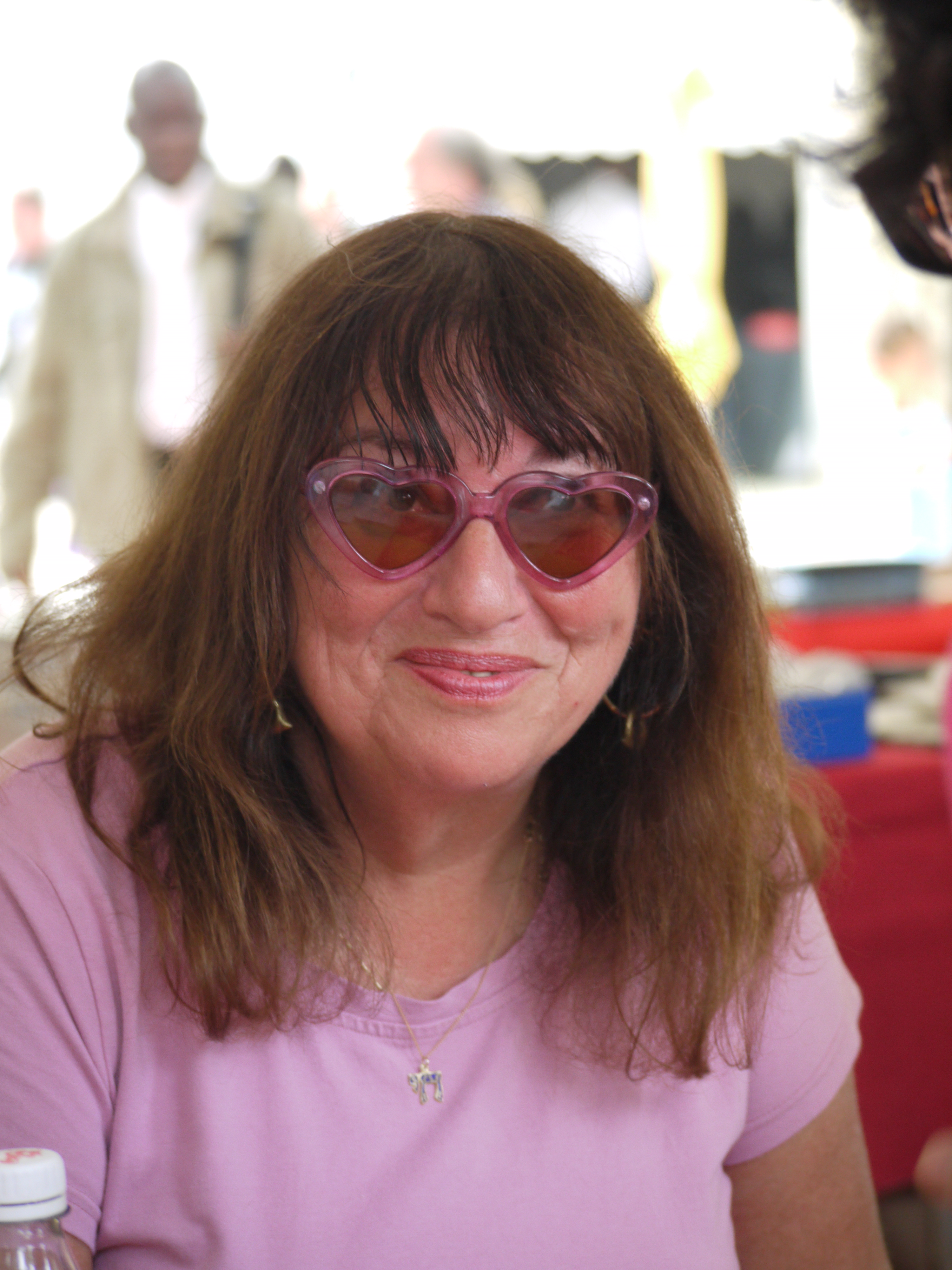 Comédie du Livre 2010 edition of Montpellier